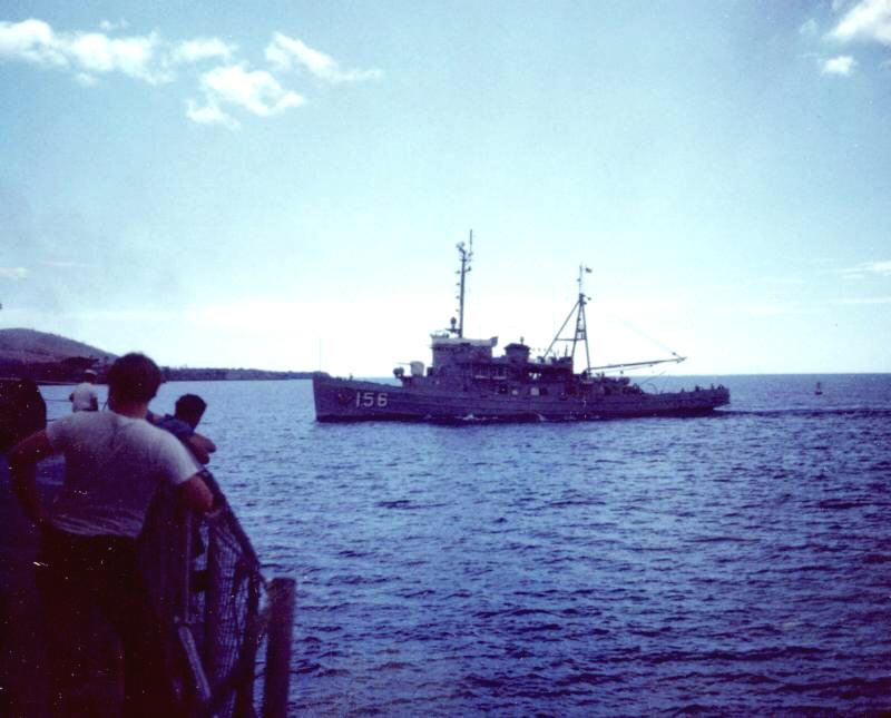 USS Luiseno (ATF-156), date and place unknown. Official US Navy photograph taken from